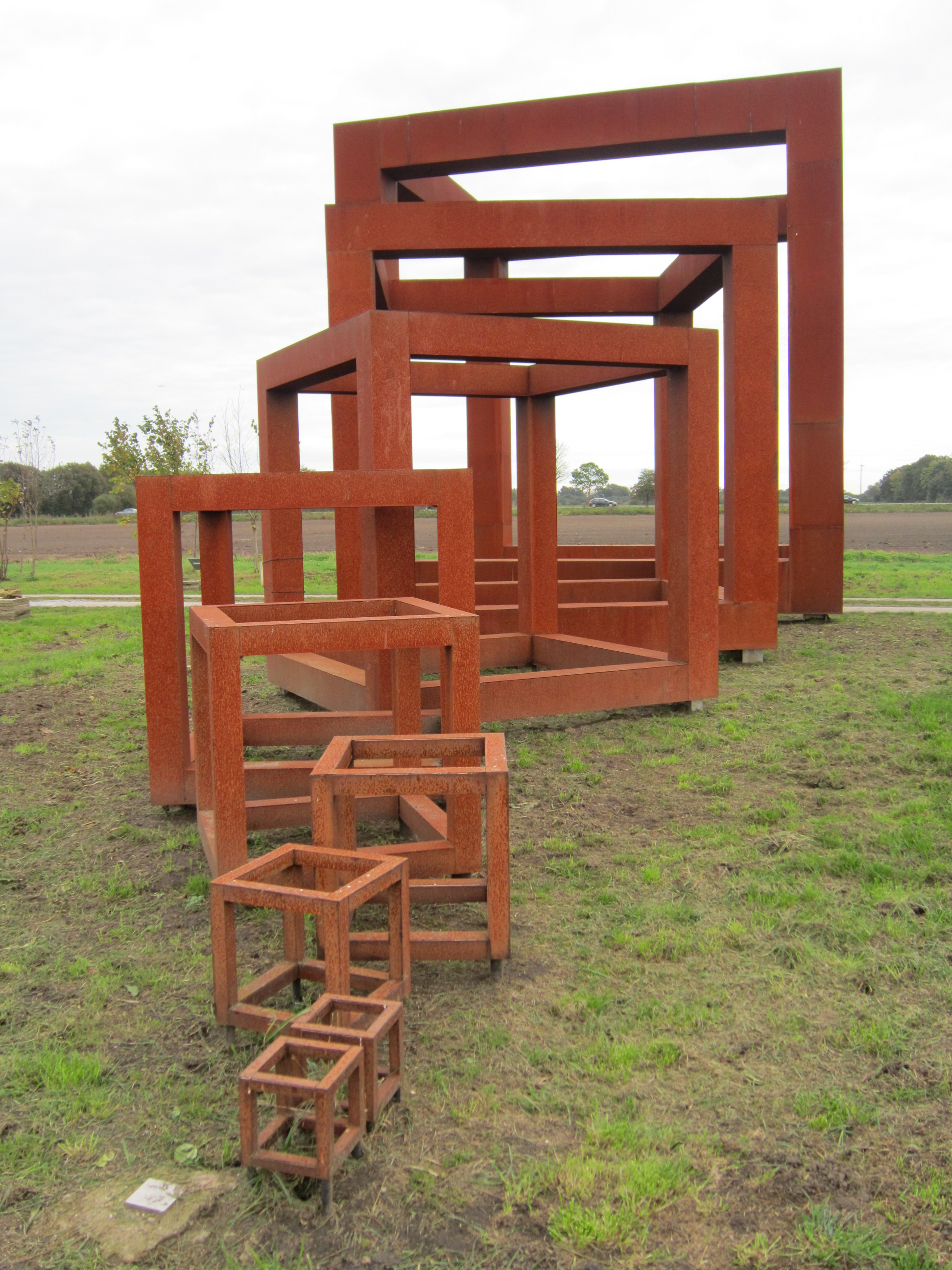 Nine iron Fibonacci Cubes by Petra Paffenholz as part of the sculpture walk "Diepholz | Dümmer"